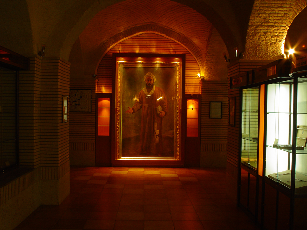 Iranian national Museum of Medical Sciences; Tehran; Iran (Founder: Dr. Maziar Ashrafian)